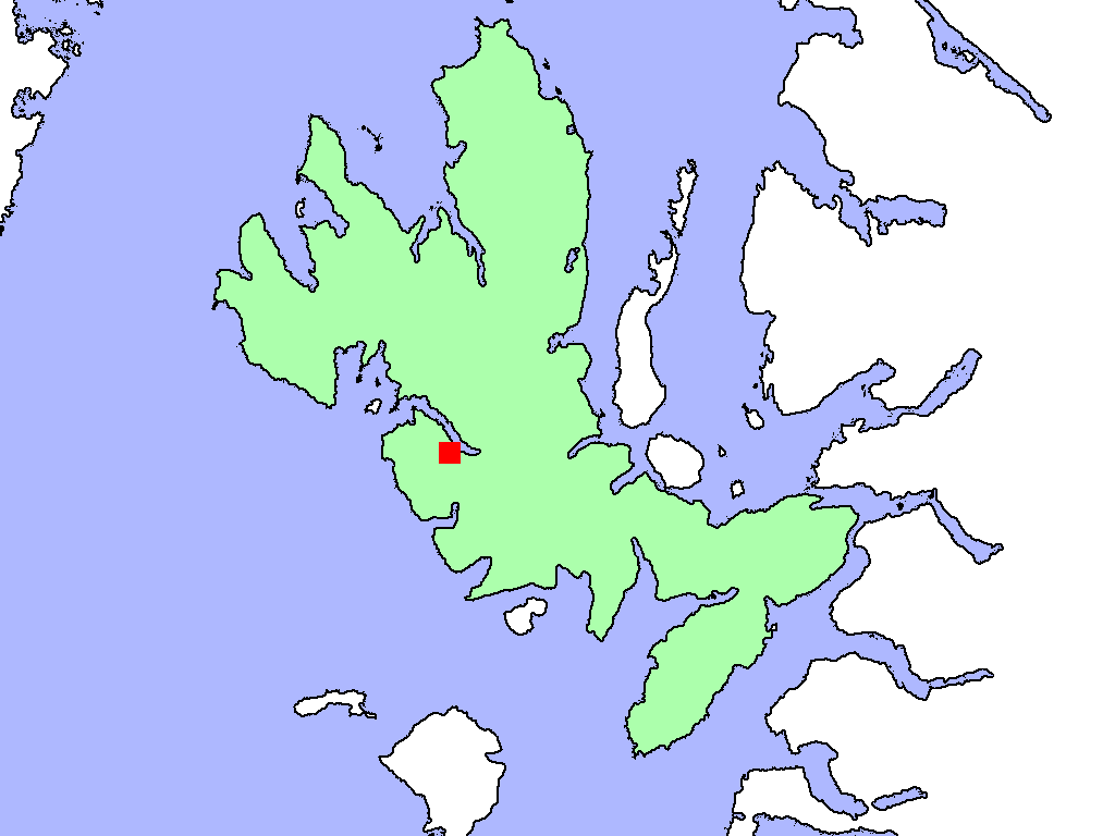 Map of the Isle of Skye, with Talisker Distillery highlighted